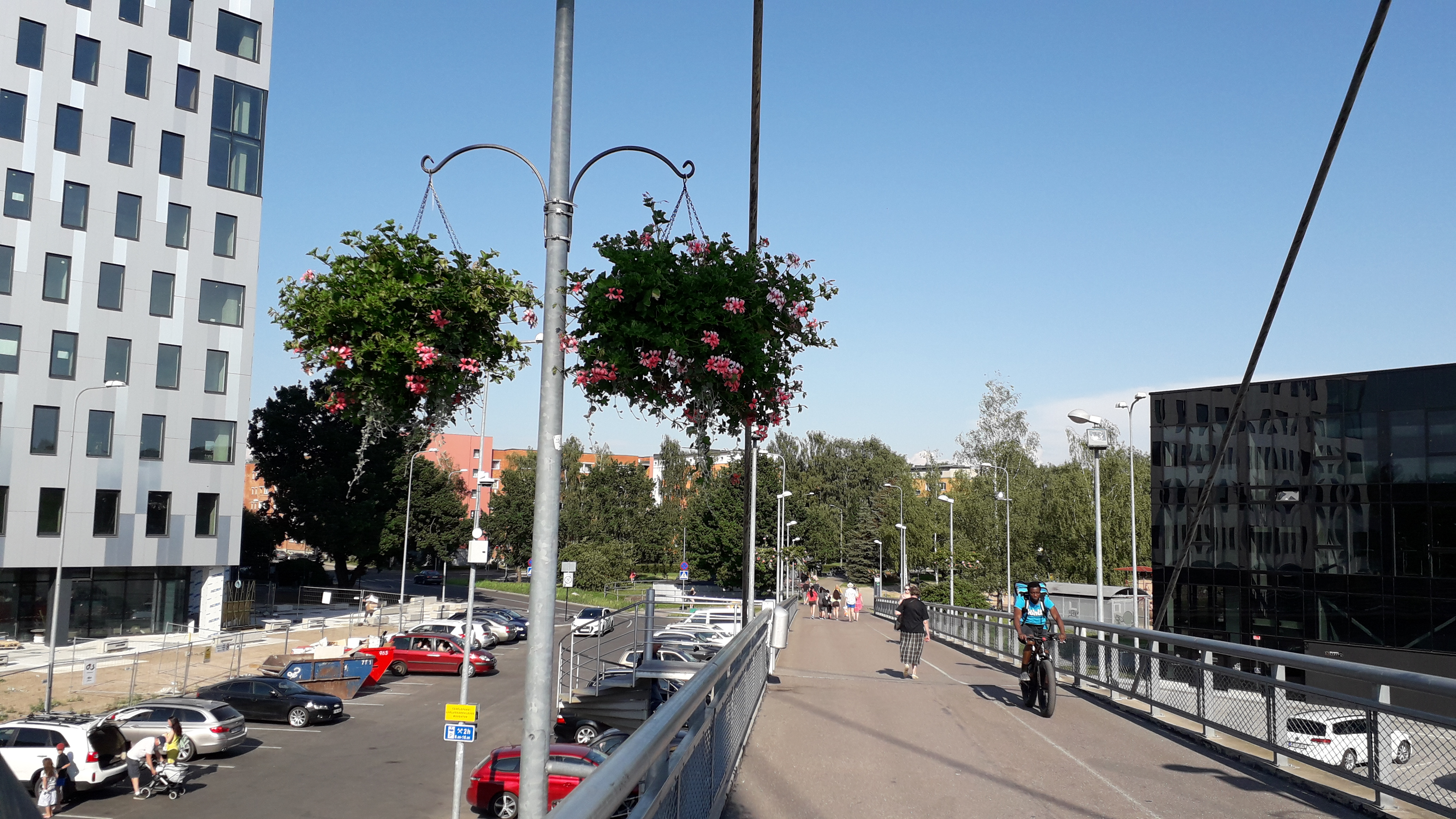 vaade Turusillalt